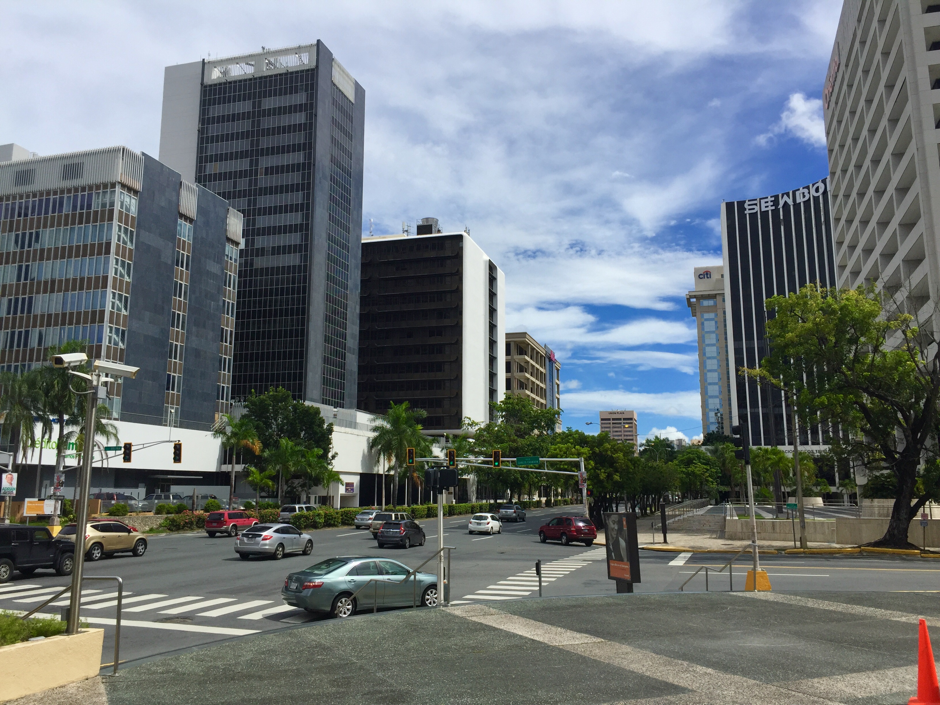 View of the Golden Mile from the American International Plaza building